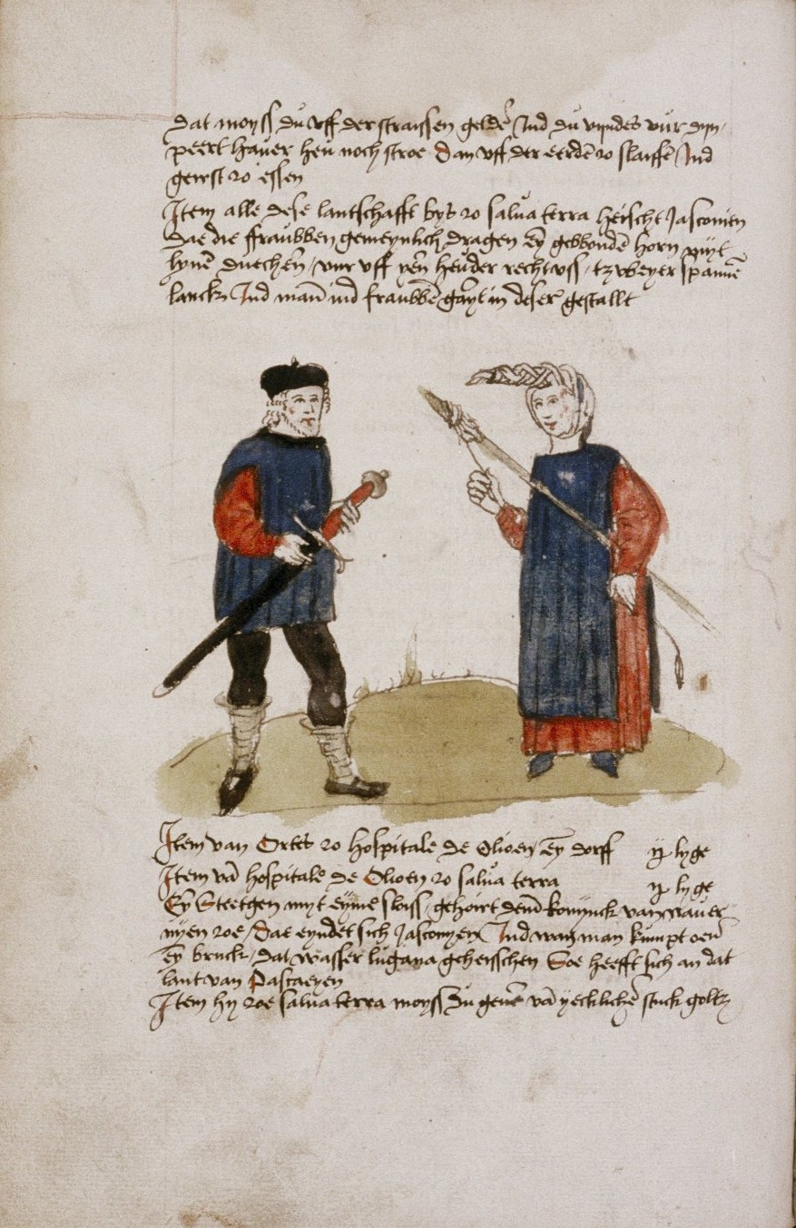 Account of Arnolf Van Harffs travels in 1496-1499. MS. Bodl. 972